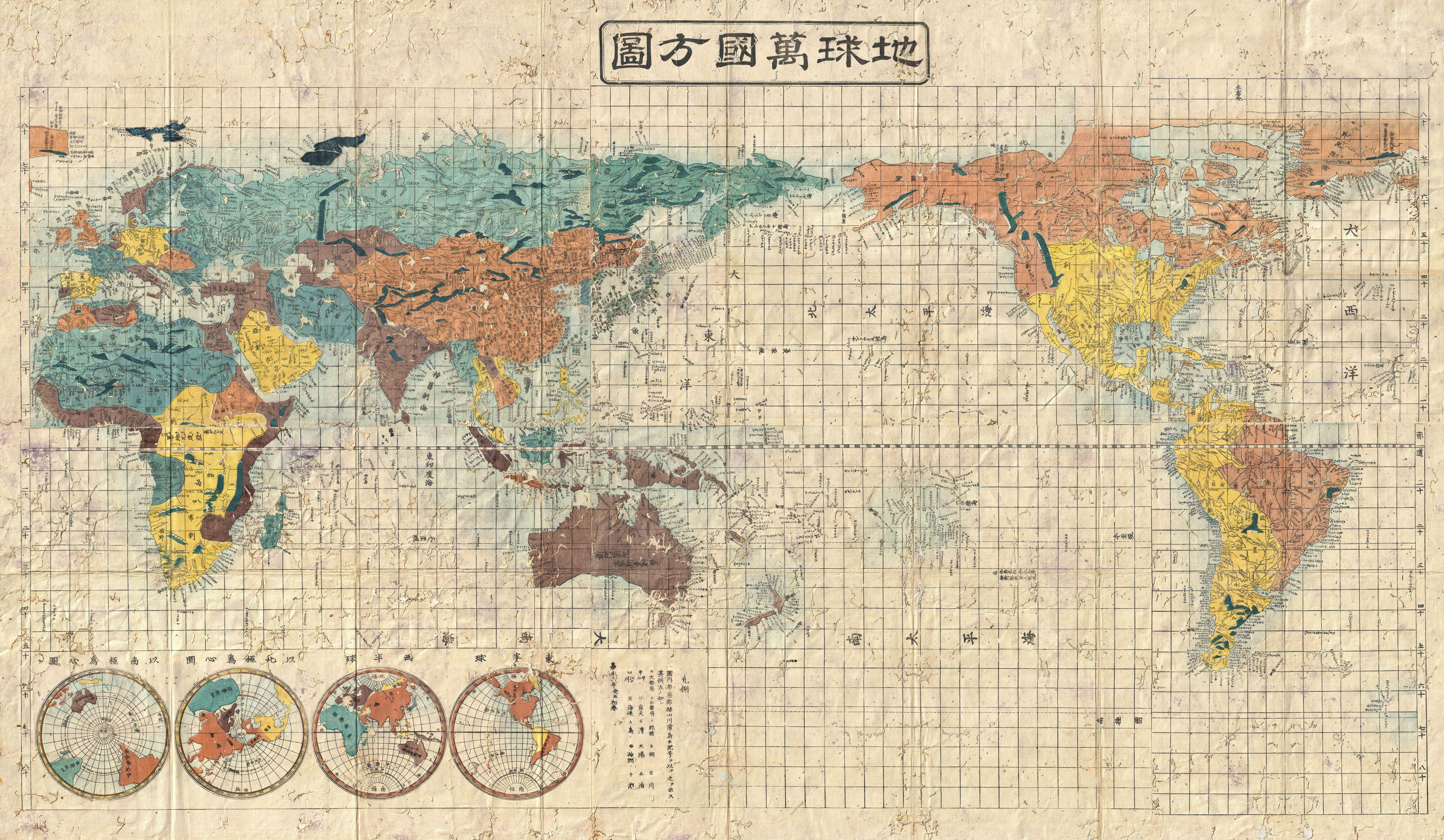 A very interesting 1853 (Kaei 6) Japanese world map by Suido Nakajima. Presented on a cylindrical projection, this map marks a significant advancement in Japanese globular cartography and a far more sophisticated adaptation of western cartographic standards than is evidenced in most earlier Japanese world maps. No longer reliant on 17th century Dutch maps acquired via the Dutch East India Company’s (VOC) trade concession in Nagasaki, the Japanese have here abandoned many of the antiquated cartographic notions, such as an insular California, which were common in Japanese maps of the previous decade. Japanese cartographers may have been motivated to update their traditional world view in the light of the explosion of cartographic ideas associated with the arrival in Edo Harbor of the American Commodore Matthew Perry in the same year this map was published. As a whole this map offers a sophisticated cartographic presentation of the world embracing the most up to date cartographic knowledge available in the mid-19th century. Though adapted to the Japanese printing style, this map presents a generally accurate world view. British Claims to Washington and British Columbia are noted in North America, Australia and the Pacific are accurately rendered, as are the discoveries of Vitus Bering and James Cook in the Arctic, and Africa is clearly pre-Speke. The disputed East Sea / Sea of Japan / Sea of Korea is here labeled as the Sea of Joseon (Korea), which some scholars suggests indicates Japanese acceptance of the “Sea of Korea” convention. Four hemispheres appear in the lower left quadrant, from left, the southern, northern, eastern, and western. All are on a stereographic projection. The map is printed on woodblock and hand colored in vivid, blues, greens, oranges, and yellows. A fine example of the redefined Japanese cartography style of the later Tokugawa period.